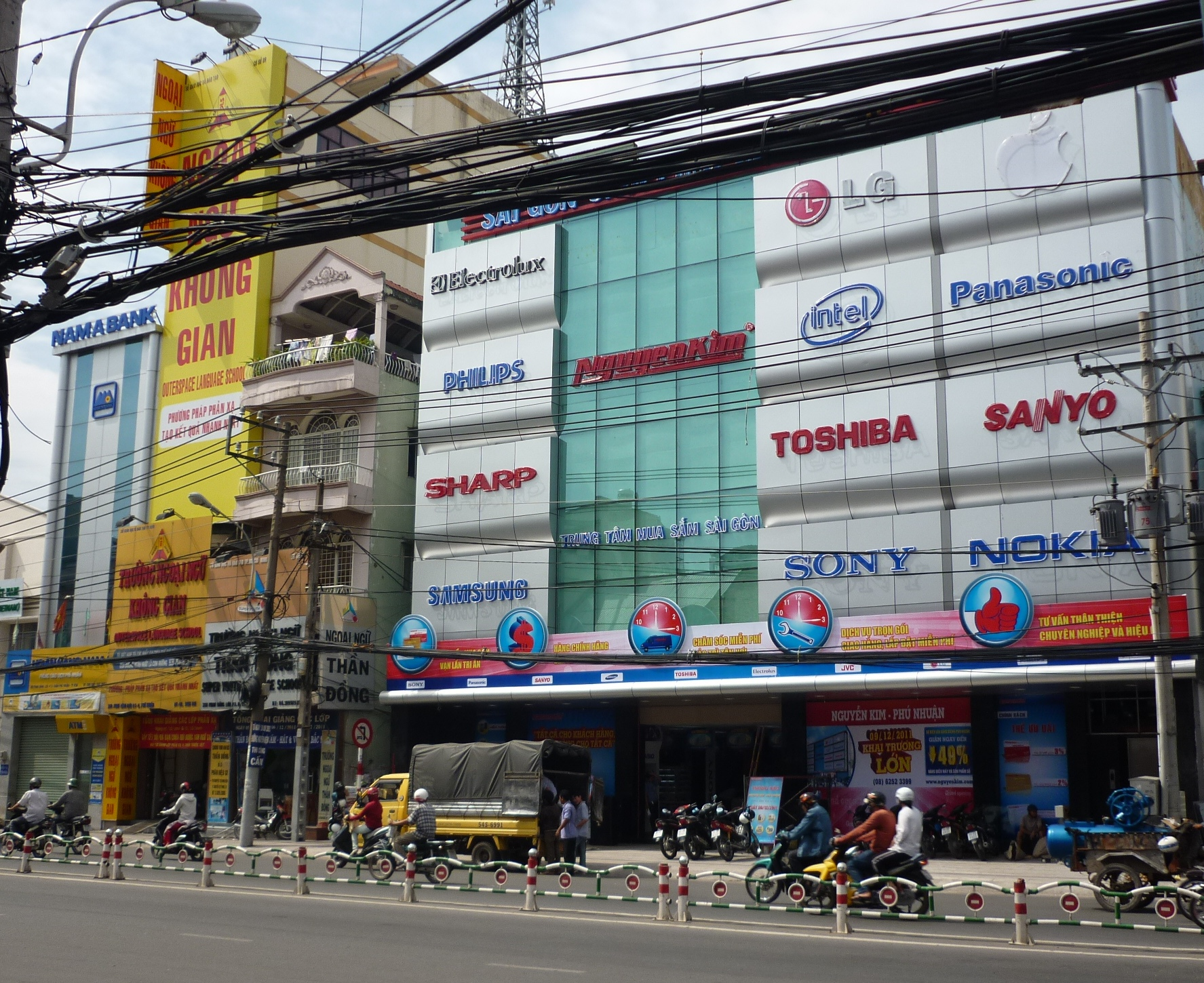 Trung tâm Thương mại Nguyễn Kim tại đường Phan Đăng Lưu quận Phú Nhuận TPHCM. NguyenKim shopping center at 216 Phan Dang Luu street, Phu Nhuan Dist. HCM City.